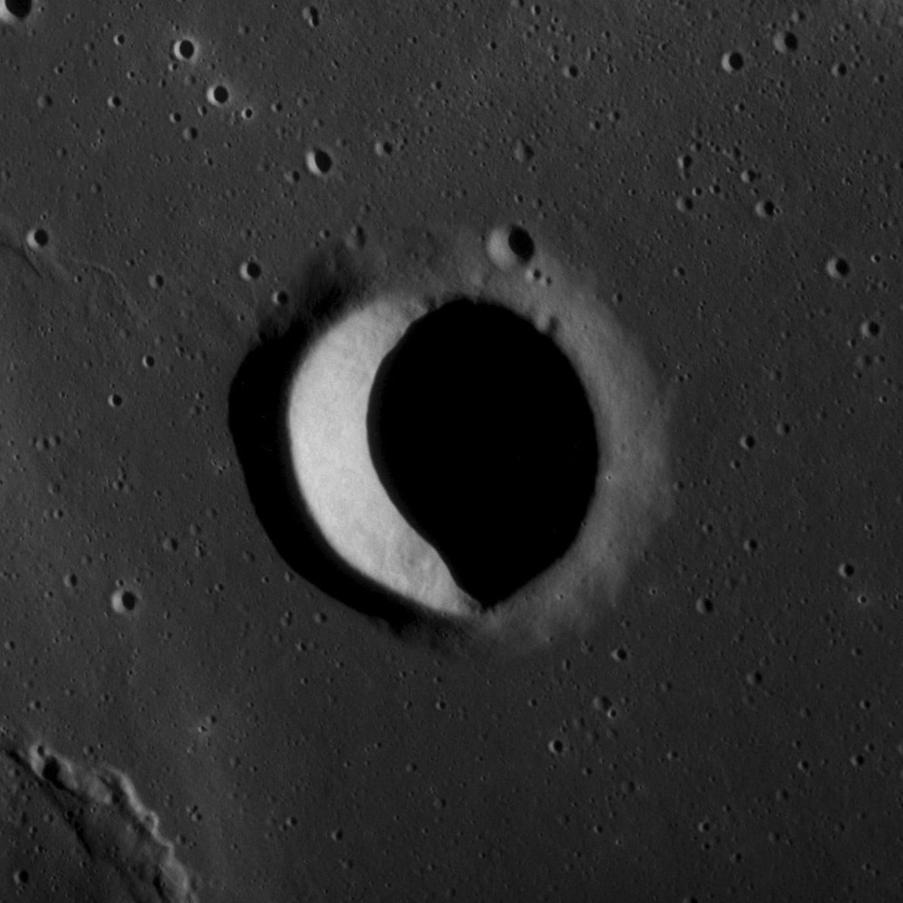 Slightly oblique view Suess F crater, on the moon.